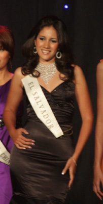 Miss El Salvador Gabriela Gavidia during Miss World 2008 in Johannesburg